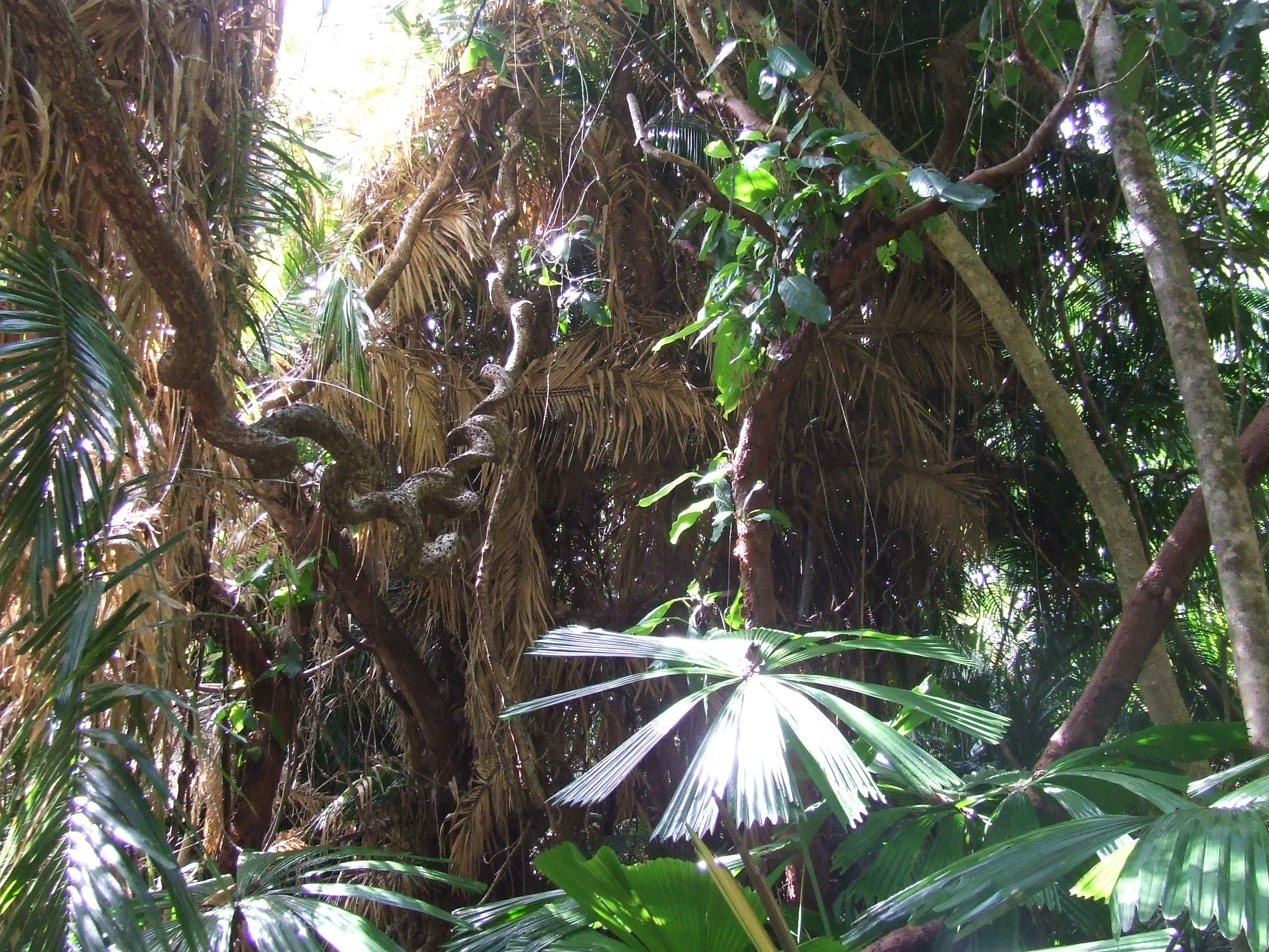 Licuala ramsayi, the Australian Fan Palm. Large circular leaves that resemble an unbrela.